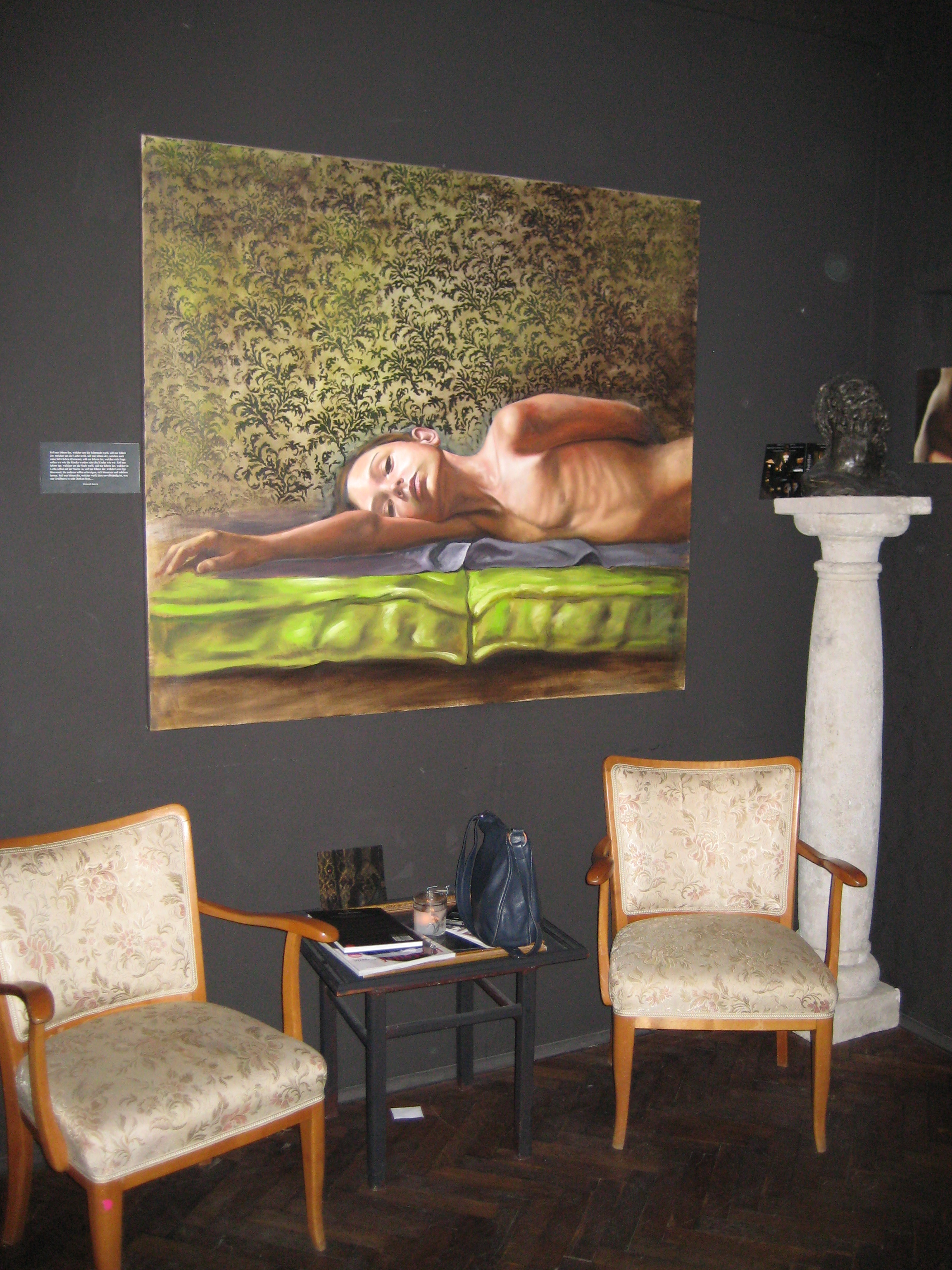 Ateliertheater (Vienna) inside, foyer